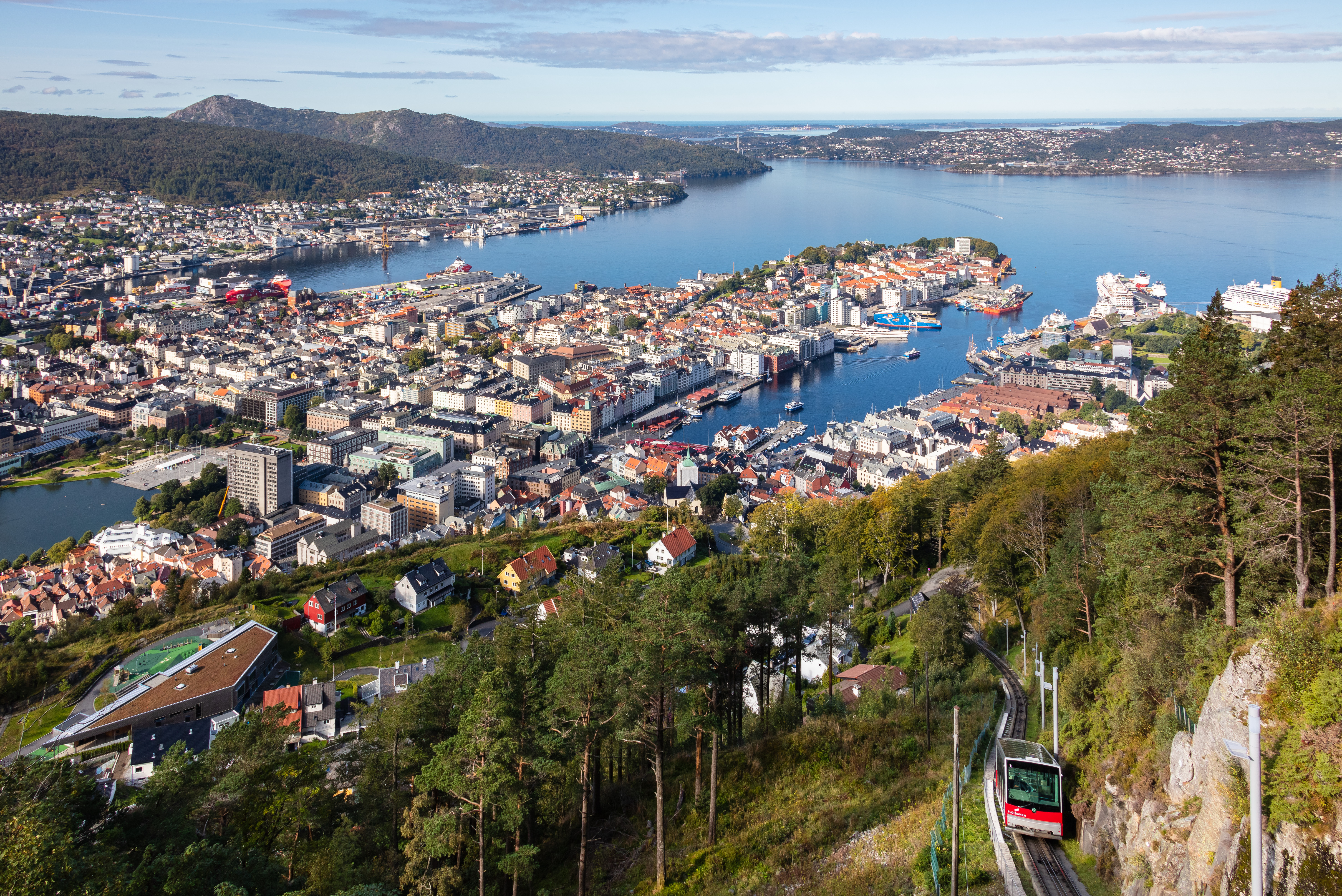 View of Bergen from Mount Fløyen, Norway